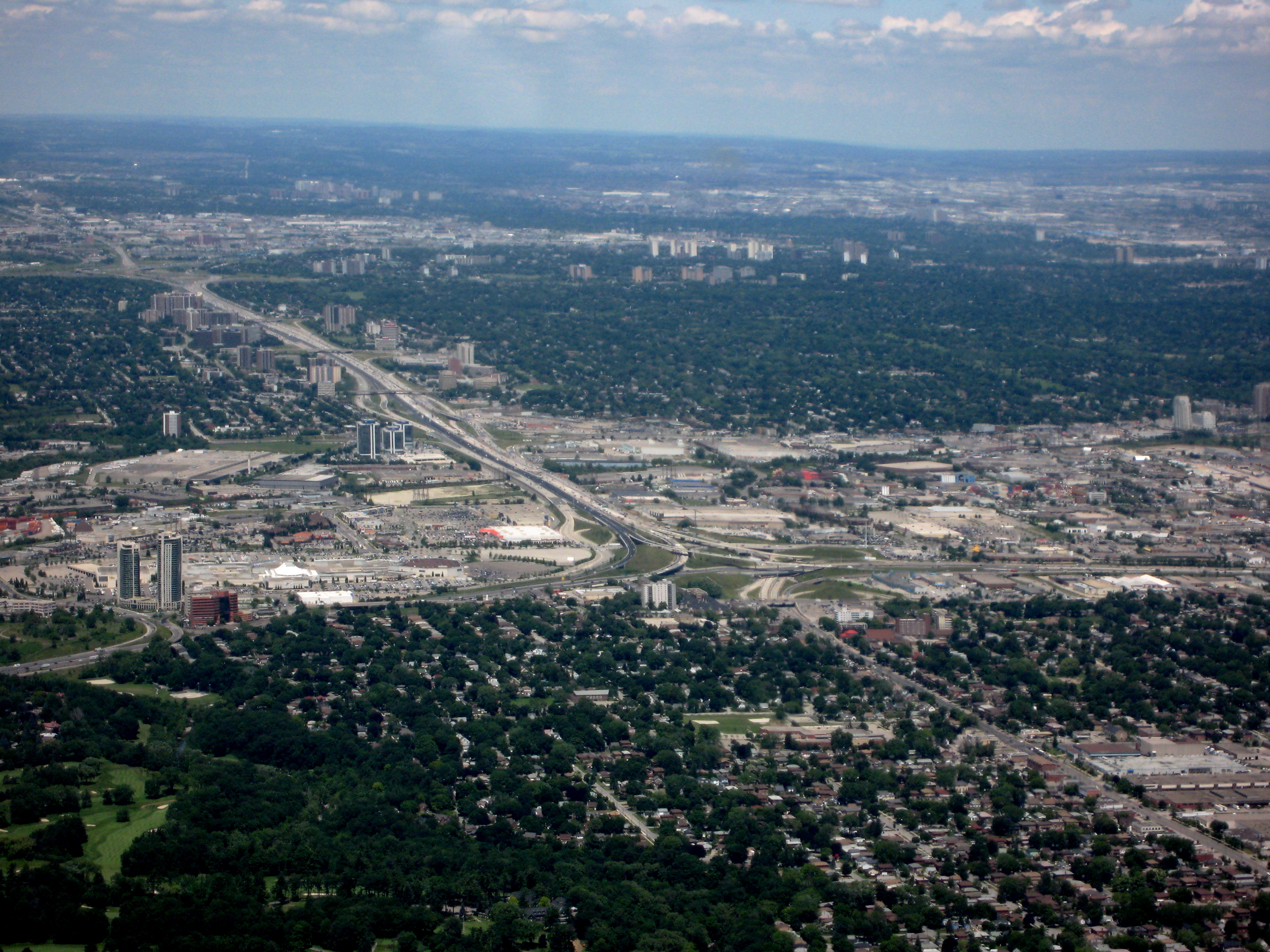 A second view of Highway 427 in Toronto.